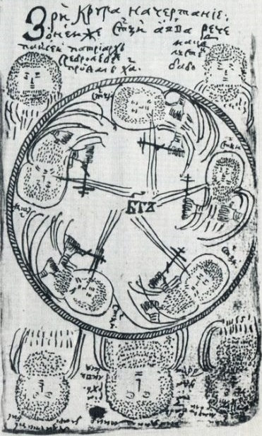 From the Pustozerkii sbornik, original MS held in St. Petersburg, made by Avvakum in prison.